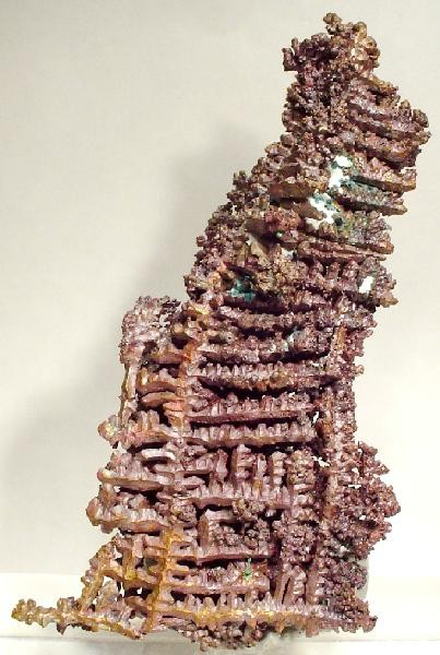 Cuprite, Copper Locality: Champion Mine, Painesdale, Houghton County, Michigan, USA (Locality at ) A VERY AESTHETIC, classic, old-time specimen of cuprite-coated, dendritic, spinel-twinned copper crystals from the famous Champion Mine of Michigan. This piece has some of VERY BEST, classic, dendritic growth patterns that I have ever seen on a copper specimen from any mine. The stem or trunk copper crystal runs the entire length of the piece and the cuprite-enhanced patina is excellent. Ex Kevin Brown Collection. It is utterly classic for the locale in terms of structure and crystallography 6.6 x 3.8 x 3.2 cm